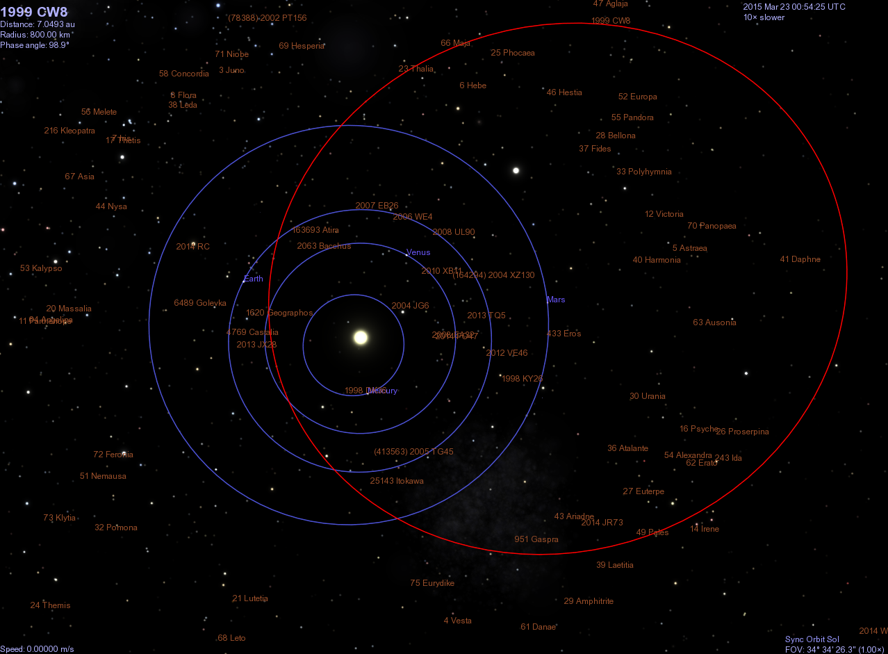 A screenshot in the program Celestia of the orbit of 1999 CW8